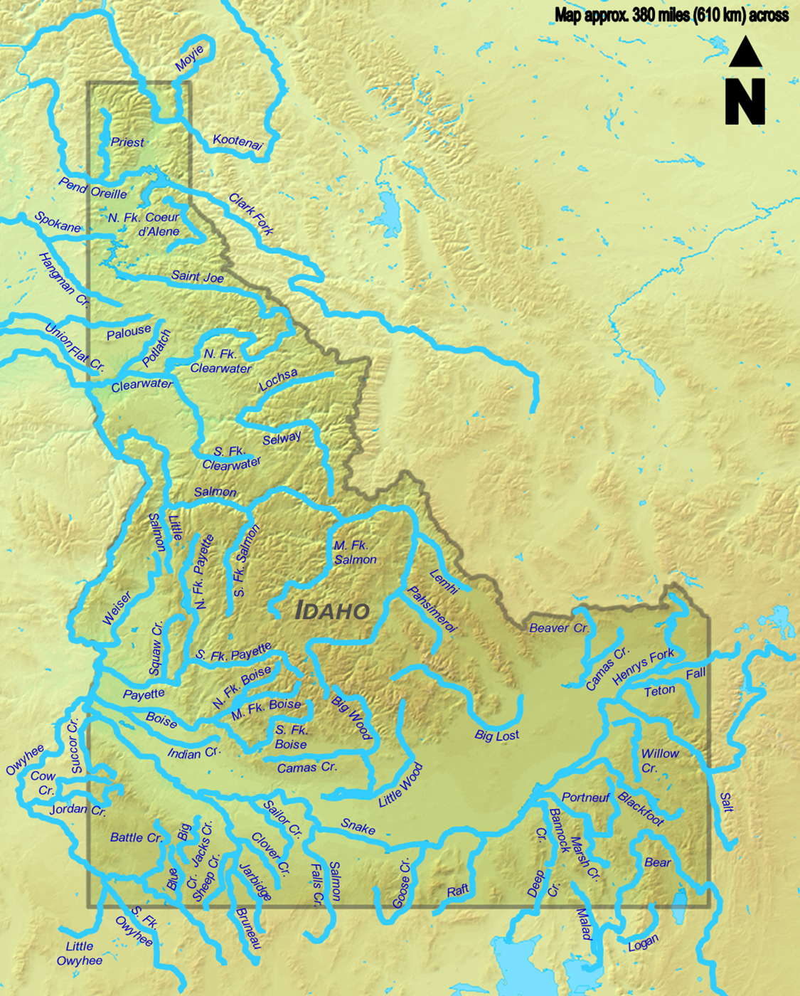 A map of all the rivers in Idaho over 50 miles (80 km) in length, as listed here.